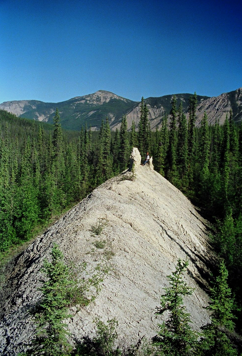 Windrow of windblown glacial silt. Loess makes for hummocks, hillocks and occasional patches of drunken forest within hiking distance of Virginia Falls campground, Nahanni National Park. View Large and squint to see Marty Smith providing scale.